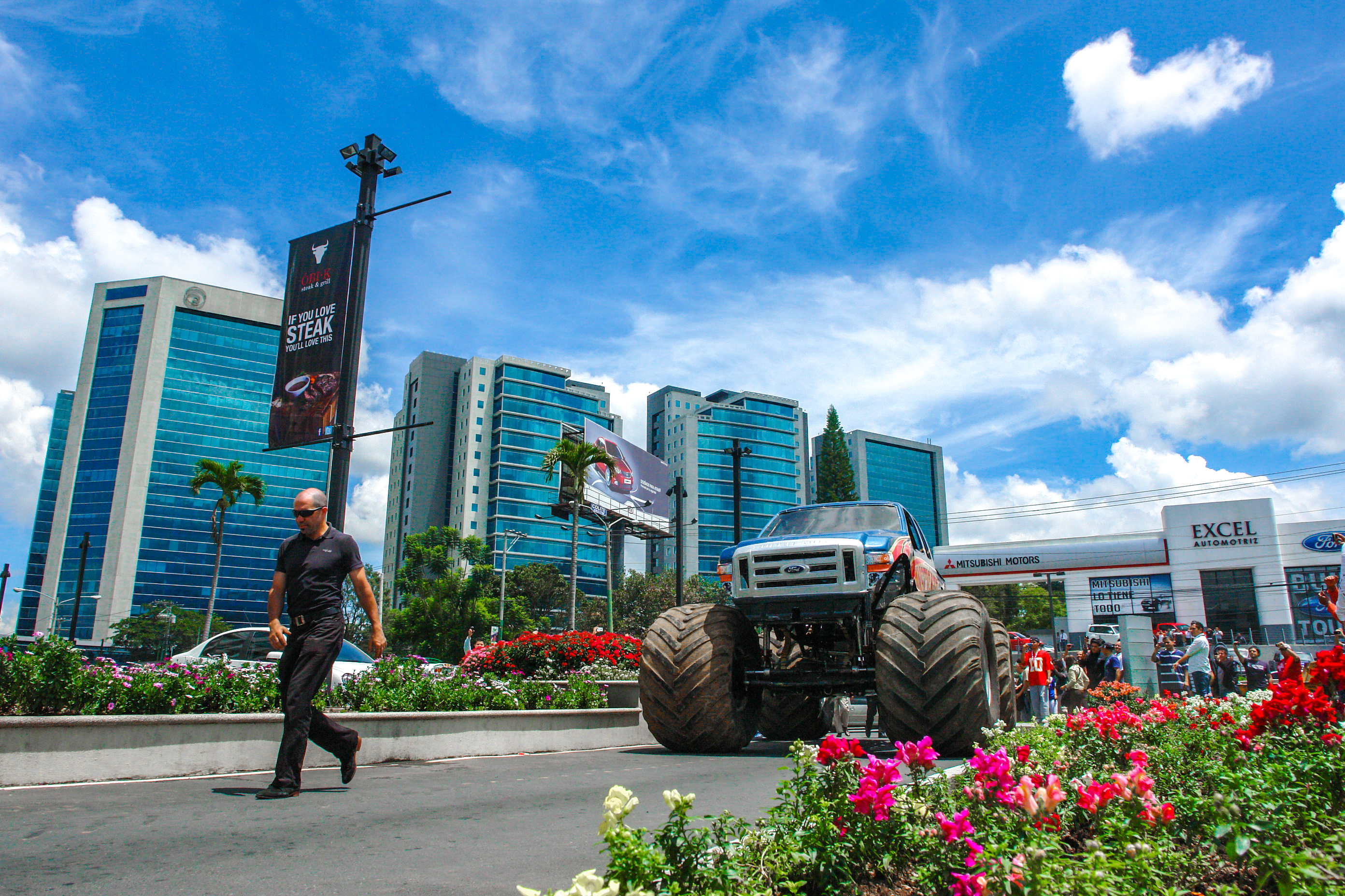 Monster Jam in Guatemala City